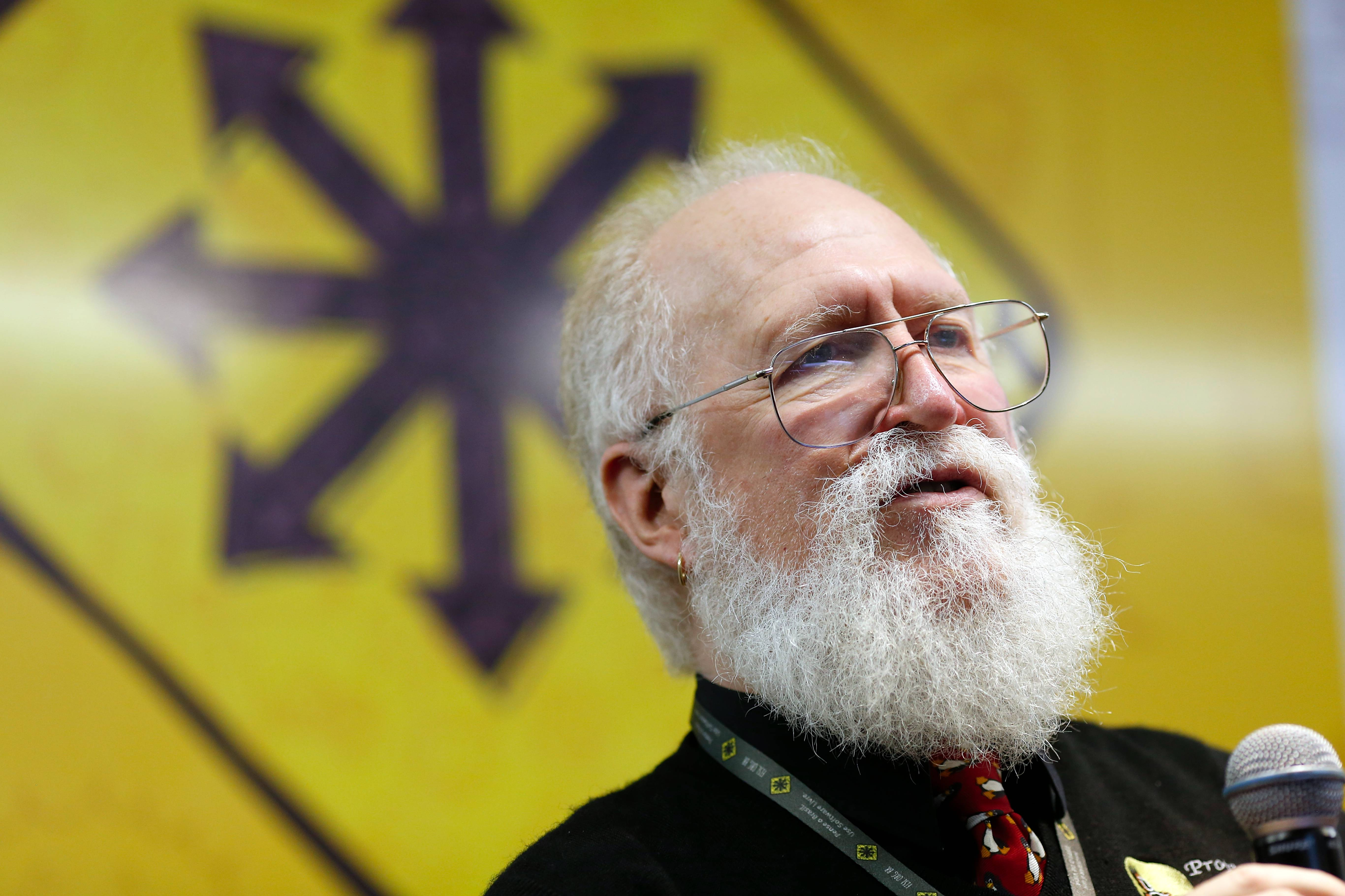 Maddog at FISL 16